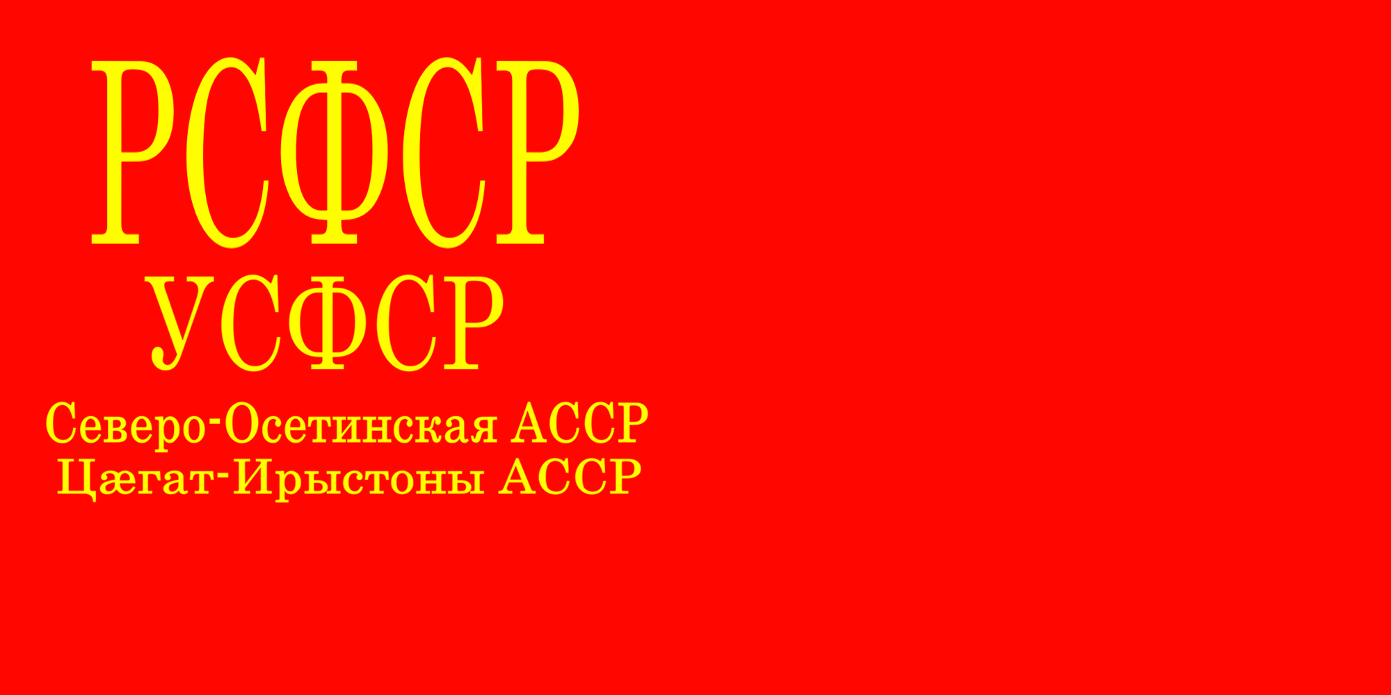 Flag of North-Ossetian ASSR (1938-1954)